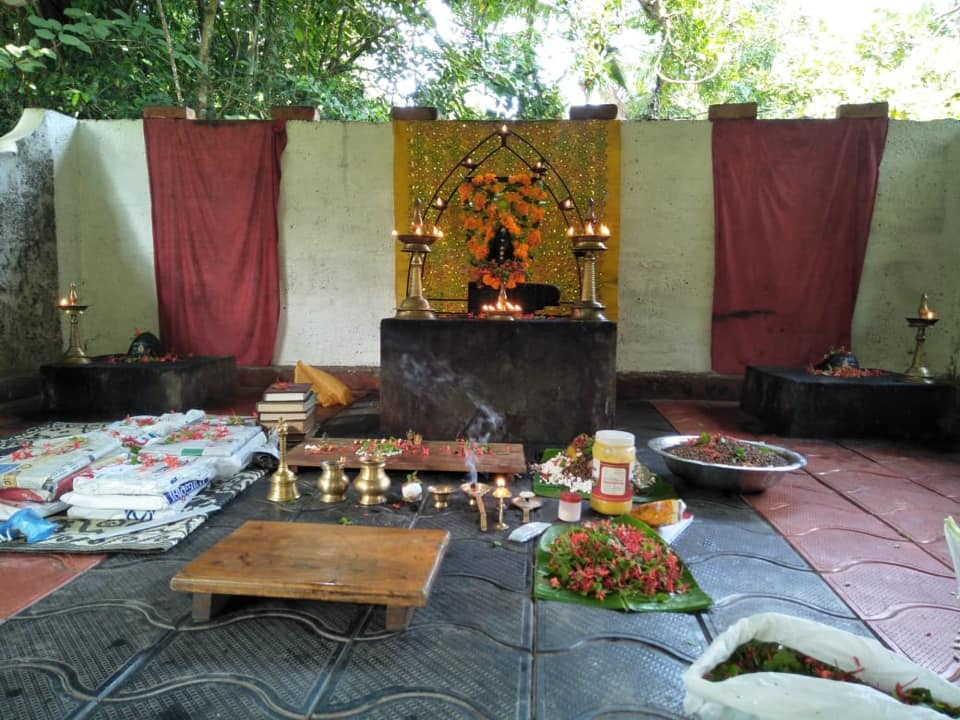 Pusthaka Pooja during Vijayadashami in Engandiyur Kalari